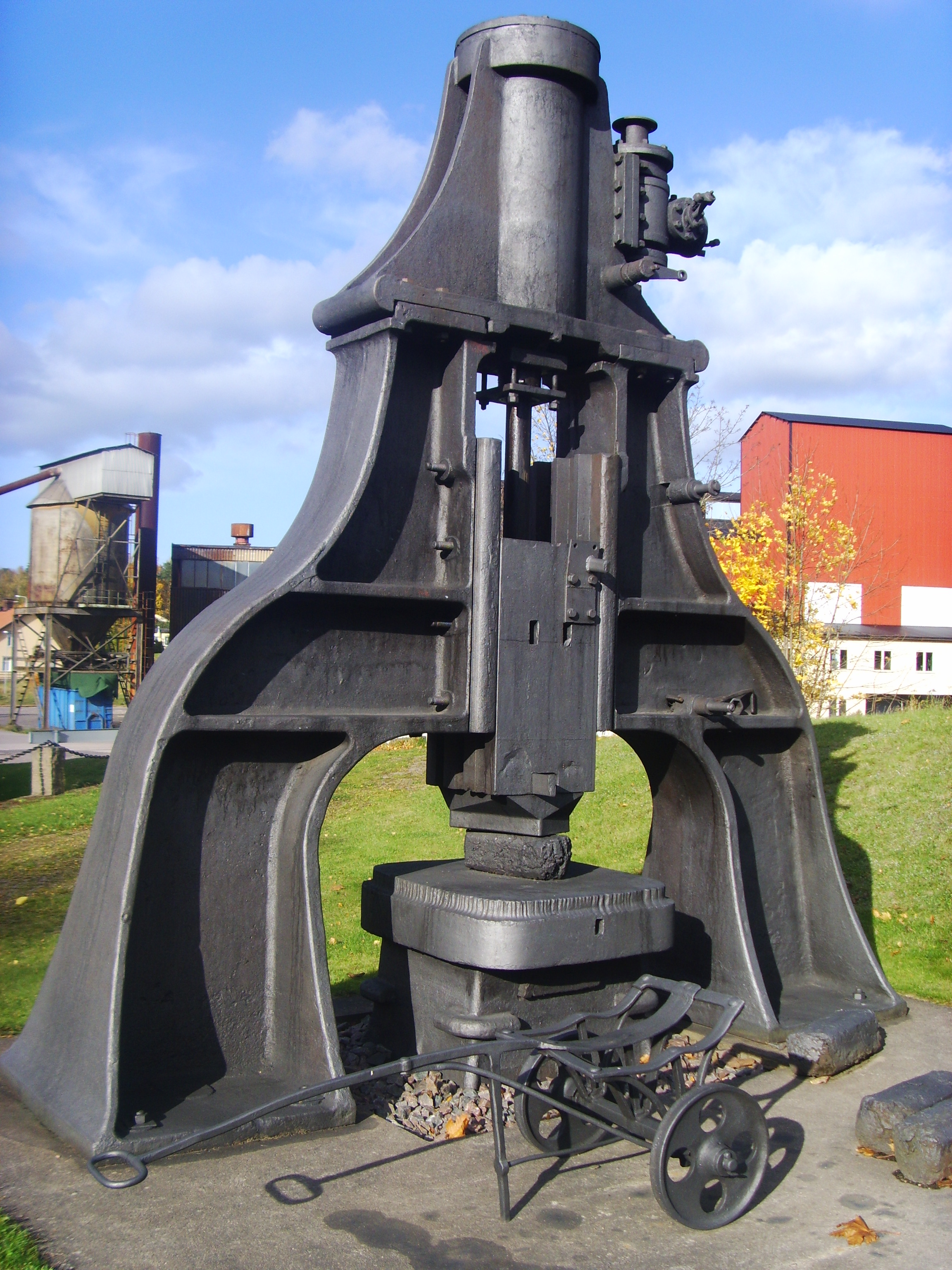 A picture from the Industrial Museum (a old watermill from the year 1777) in Boxholm, Östergötland, Sweden.